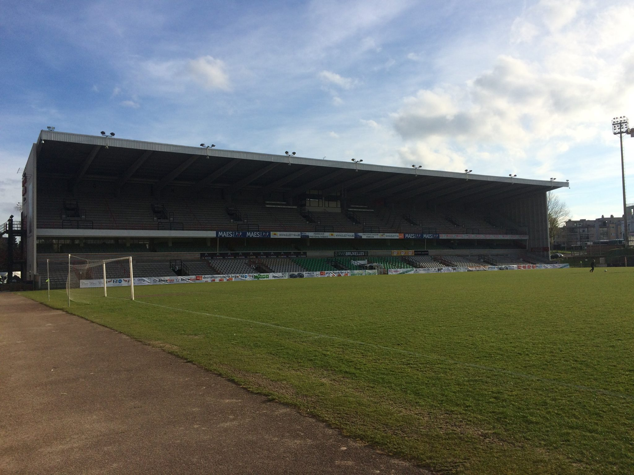 Edmond Machtensstadion Brussel